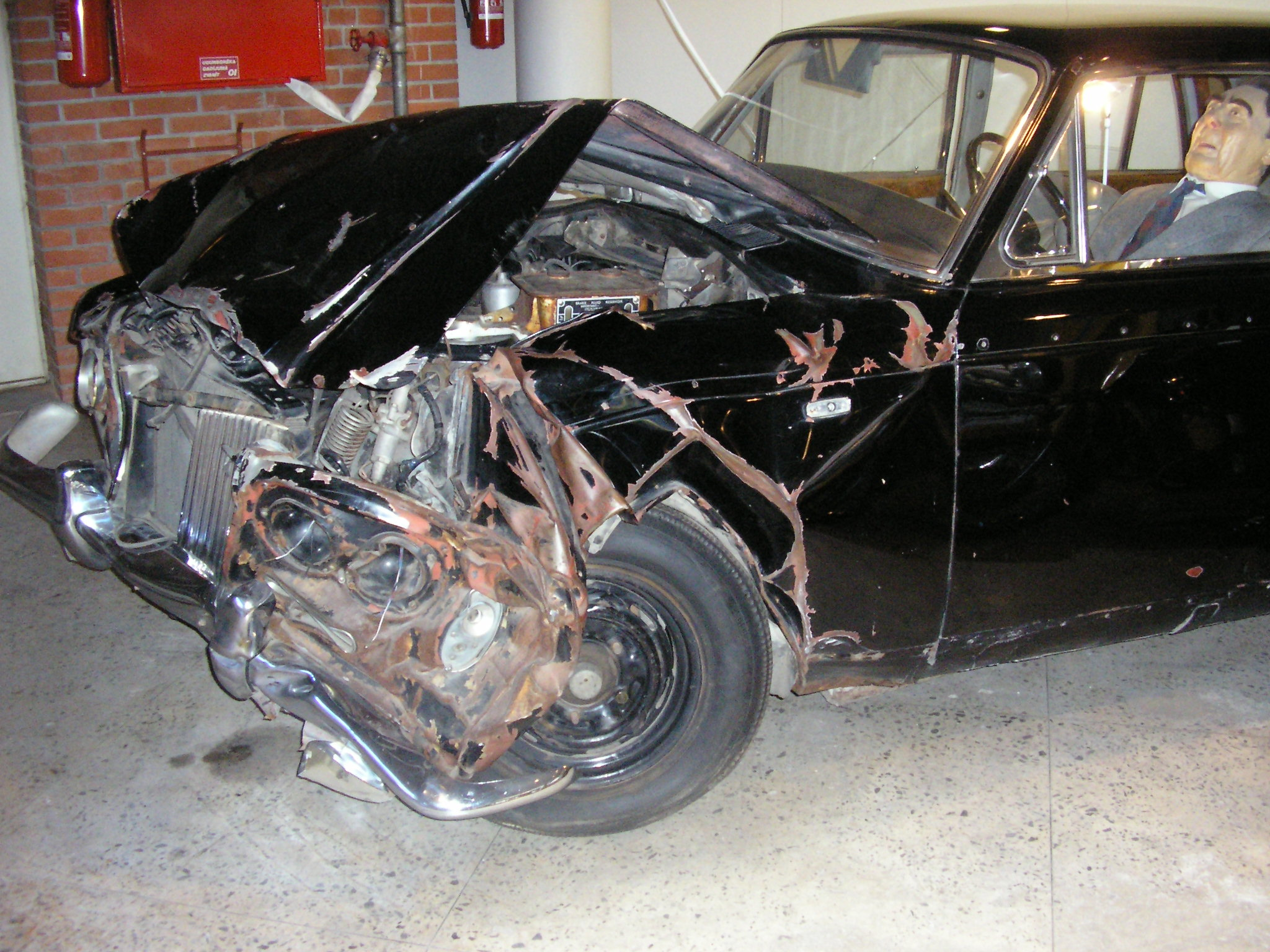 The 1966 Rolls-Royce "Silver Shadow" crashed by Leonid Brezhnev when he drove it in Moscow in 1980.